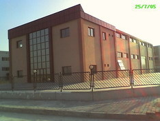 Aytas Izmir Ataturk Indusry Zone Branch